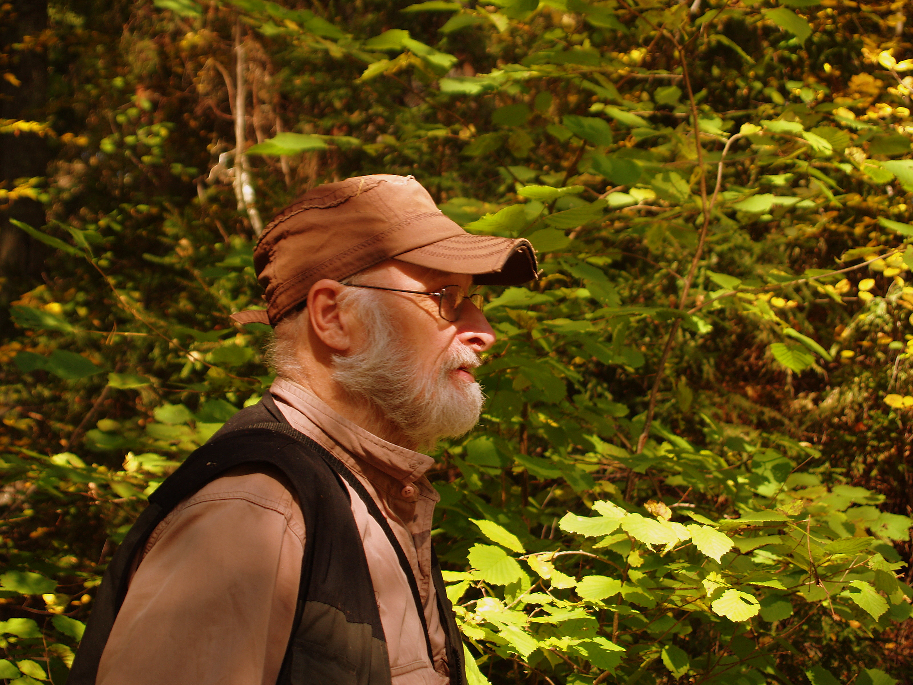 Tõnis Saadre, Estonian geologist